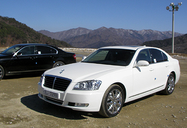 A SsangYong Chairman W.